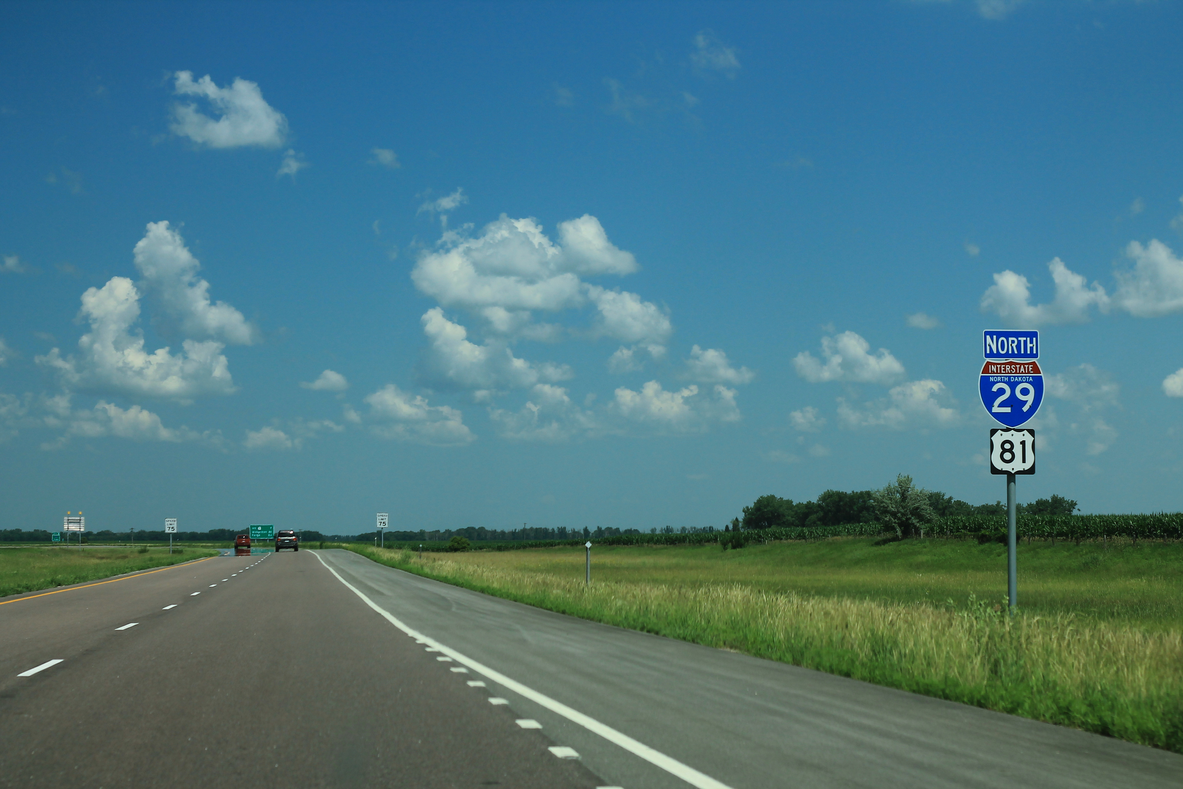 Just after the first exit on I-29 into North Dakota; they seem to use state-names shields.